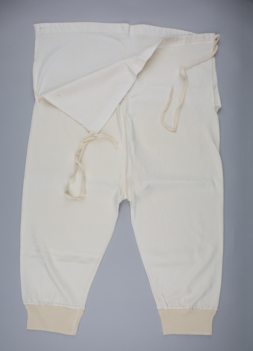 Knee-length Pedek wool underwear produced at Petersen og Dekke Tricotagefabrik in Bergen, Norway. (Object no. NTMT.08073, The Norwegian Knitting Industry Museum).